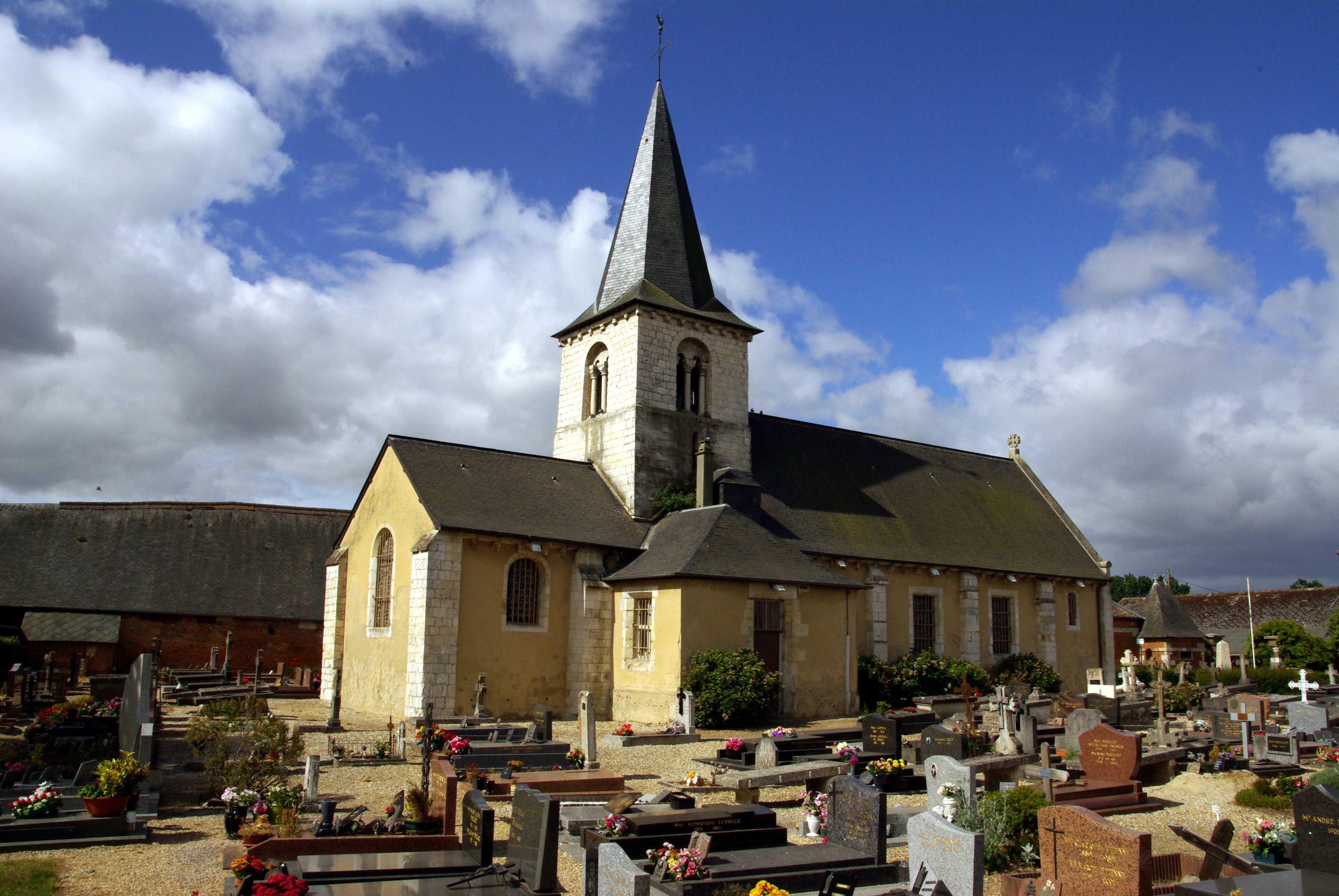 Church La Vaupalière